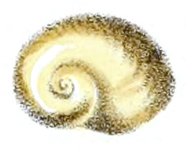 drawing of apical view of a shell of Helicarion mastersi